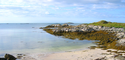 Vanna, Norway. View from Torsvåg.